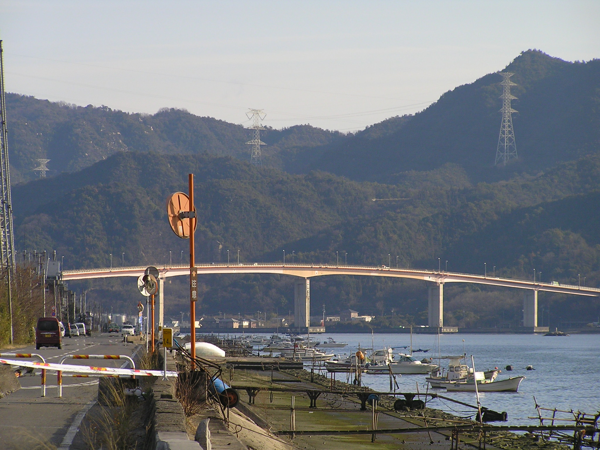 Kojima bay Bridge